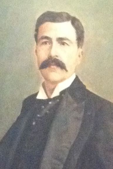 General Dr. Próspero Pinzón Romero